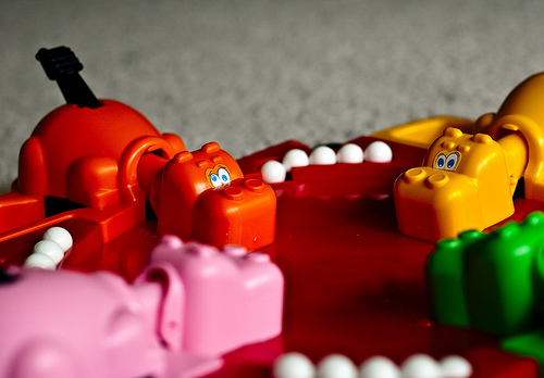 Years of overindulging on marbles had ill effects on Henry Hippo's duodenum.